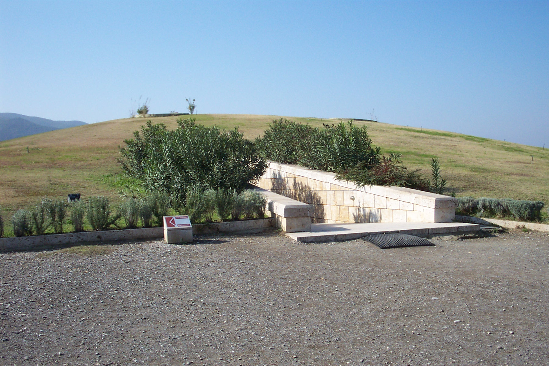 Own photo of Tomb of Vergina (2002)